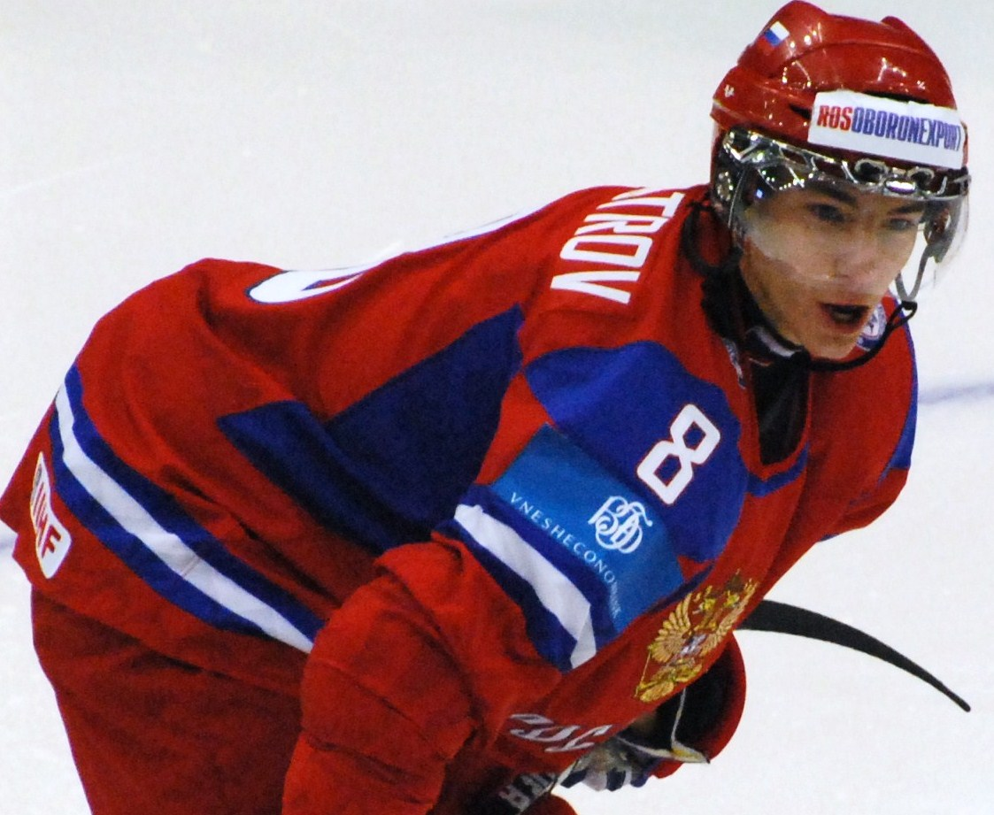 Alexander Burmistrov waits to take a faceoff during the 2010 World Junior Hockey Championships.